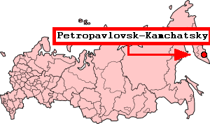 Location of Petropavlovsk-Kamchatsky.